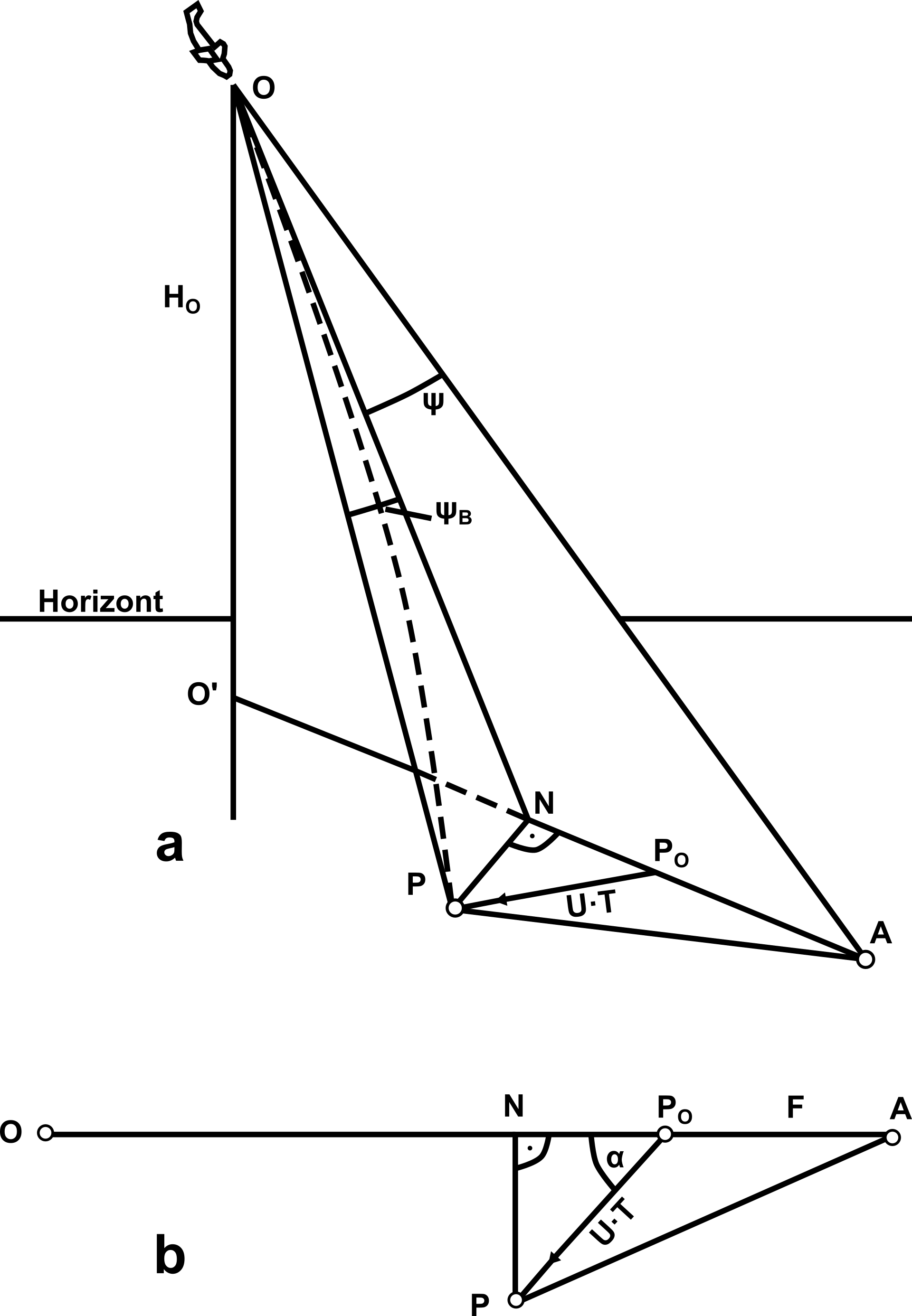 The trajectory of the bomb from the diveing in the wind